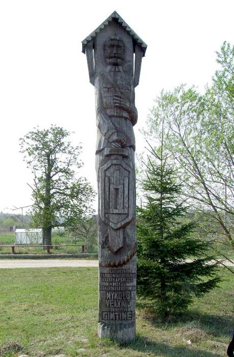 Monument in Linoniai, birthplace of Lithuanian lieutenant general Mykolas Velykis (1884-1955).